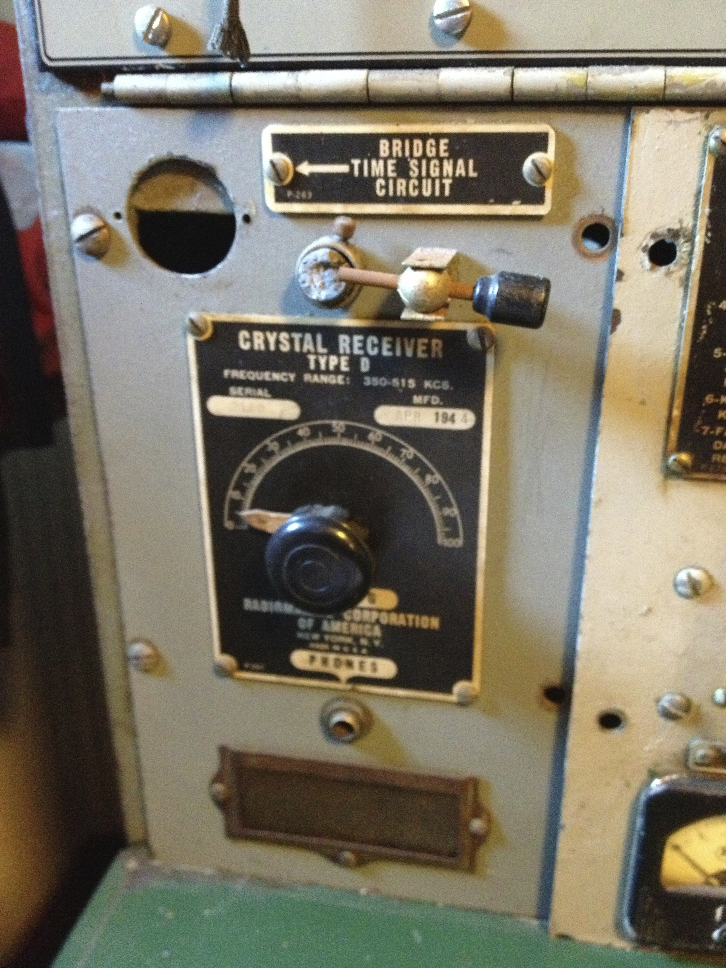 A crystal radio receiver in the radio room of the SS Jeremiah O'Brian, as a backup to the main radio.